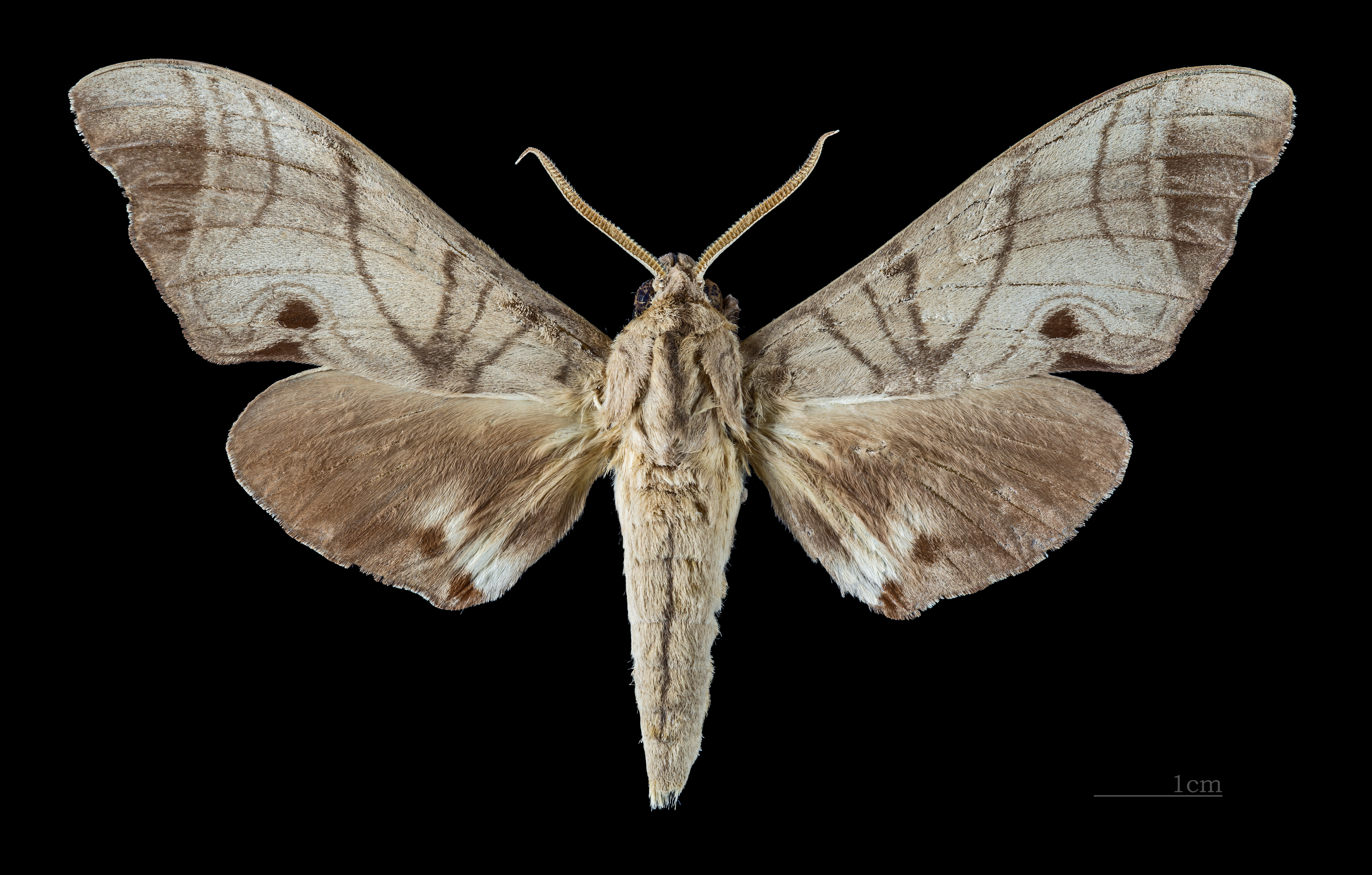 Marumba amboinicus - Dorsal side Collection of the Mathematician Laurent Schwartz